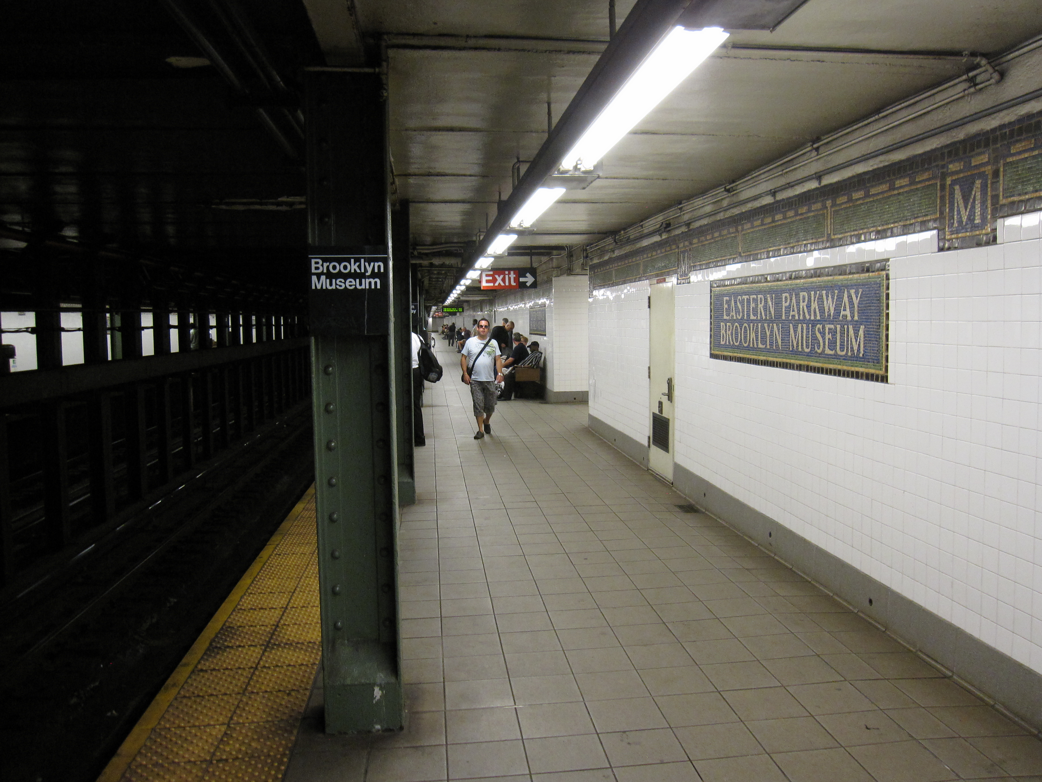 Eastern Parkway – Brooklyn Museum (IRT Eastern Parkway Line)